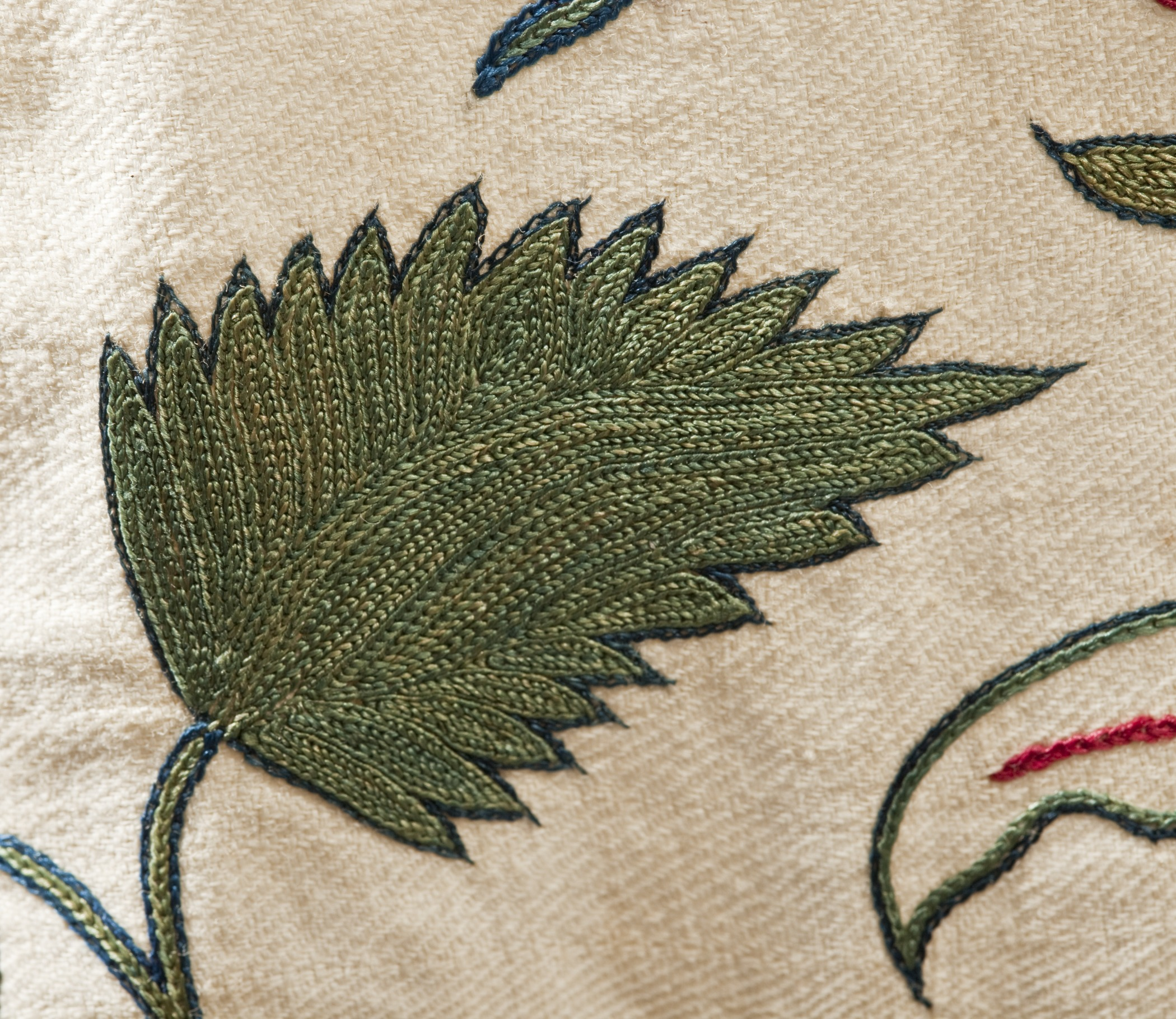 England, circa 1775 Costumes; ensembles Chain-stitch silk embroidery on cotton twill, linen lining Costume Council Fund (M.66.31a-b) Costume and Textiles